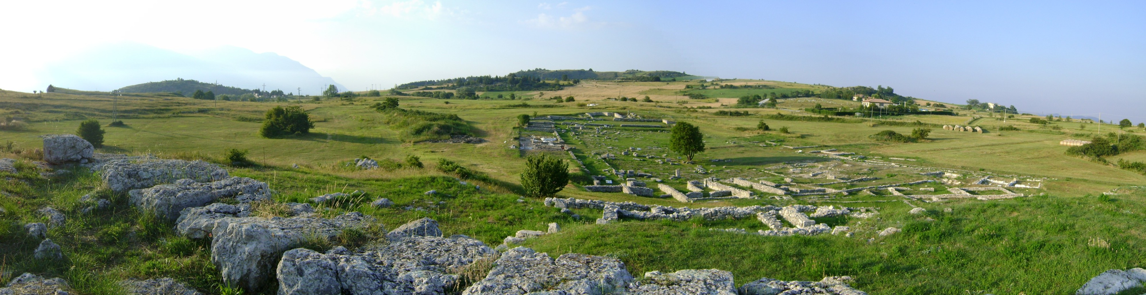 View of the ancient Roman city of Juvanum, Montenerodomo, province of Chieti, Abruzzo